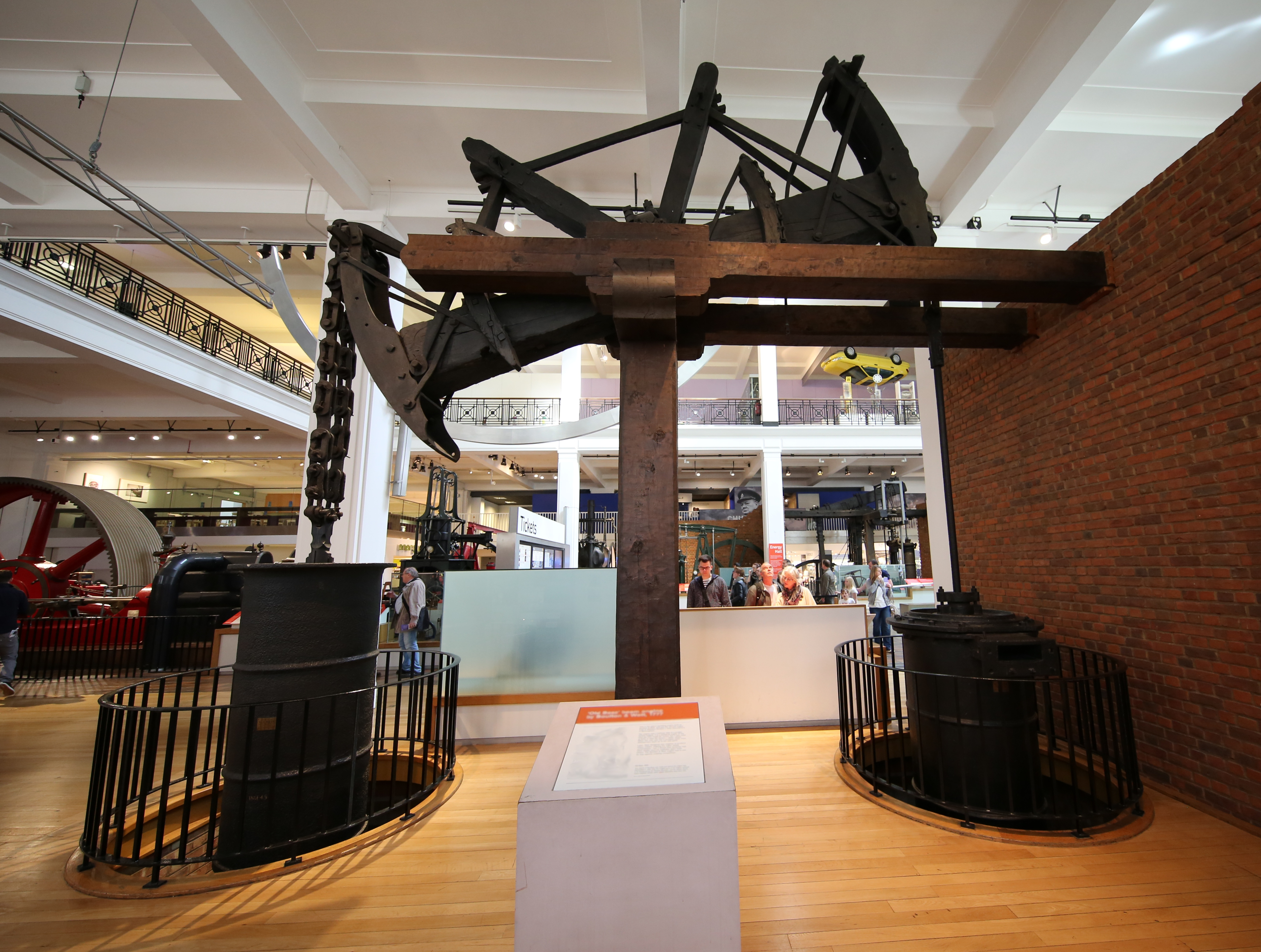 Watt's beam engine Old Bess, dating from 1777 and built by Boulton and Watt